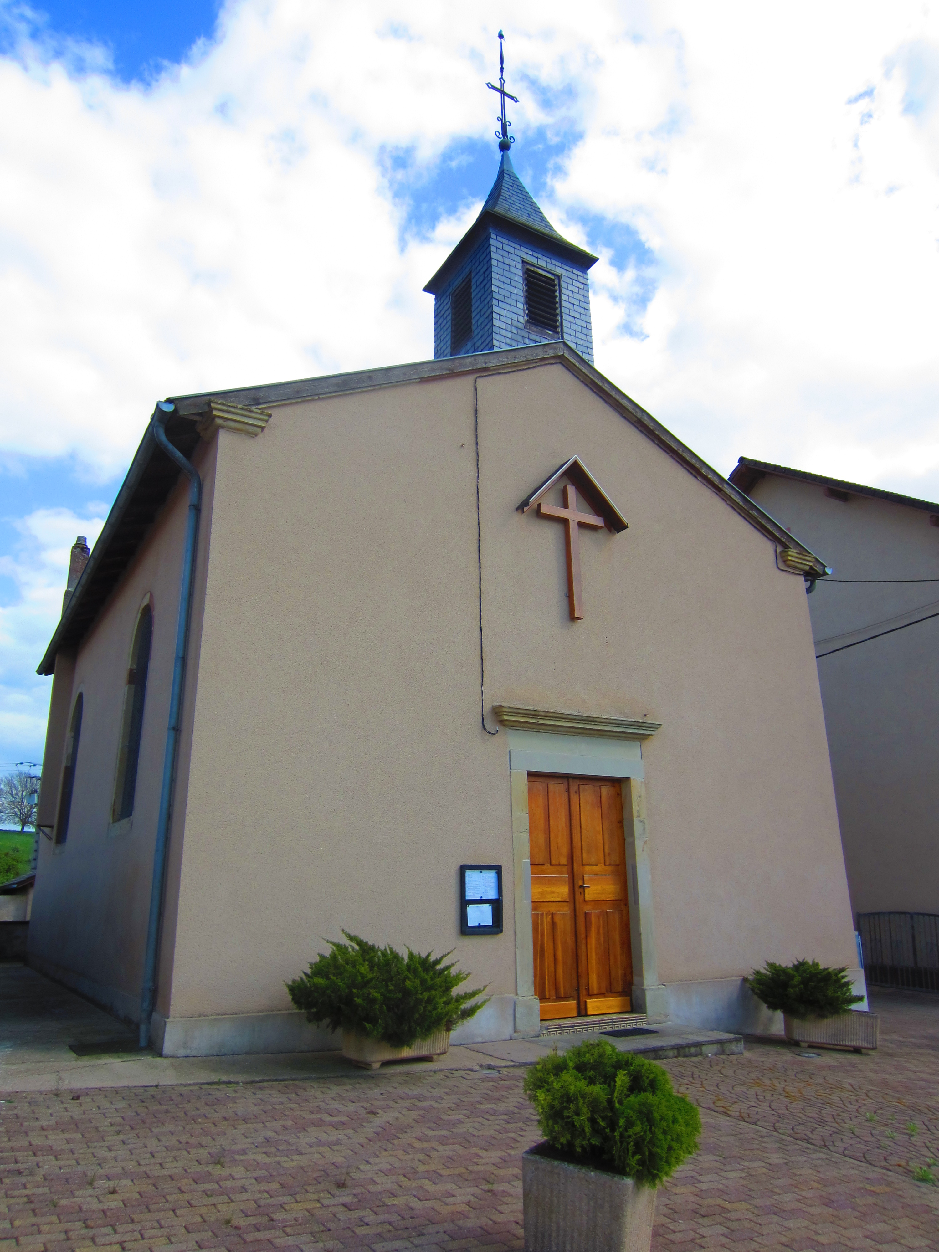 Beckerholz chapel